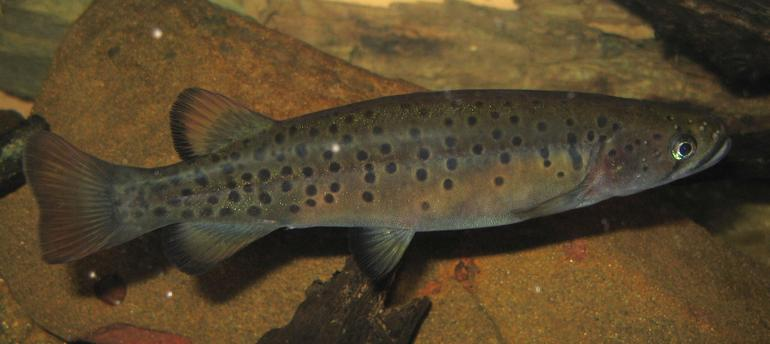 A spotted galaxias (Galaxias truttaceus) in an aquarium. The characteristic base colouration and black edges to the fins are not particularly noticeable in this photo. Photo uploaded with permission from the photographer Nathan Litjens. Please acknowledge Nathan Litjens as the source of this picture if you reproduce it.